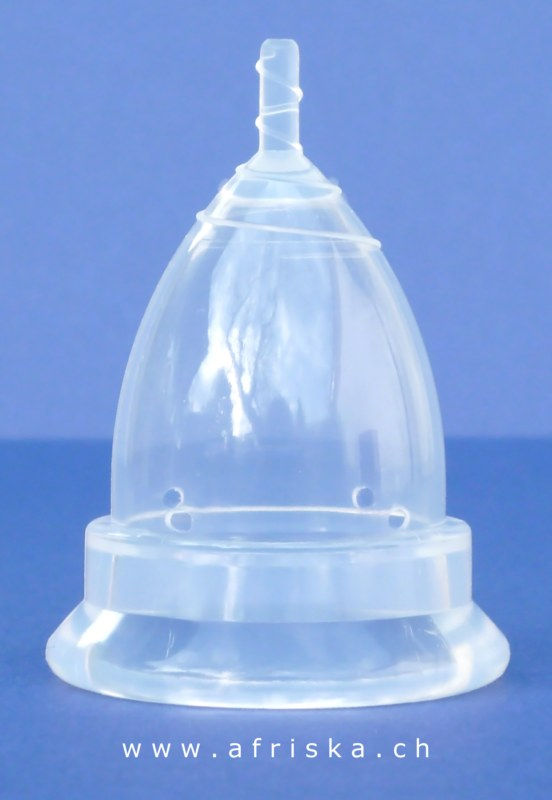 Femmecup menstrual cup